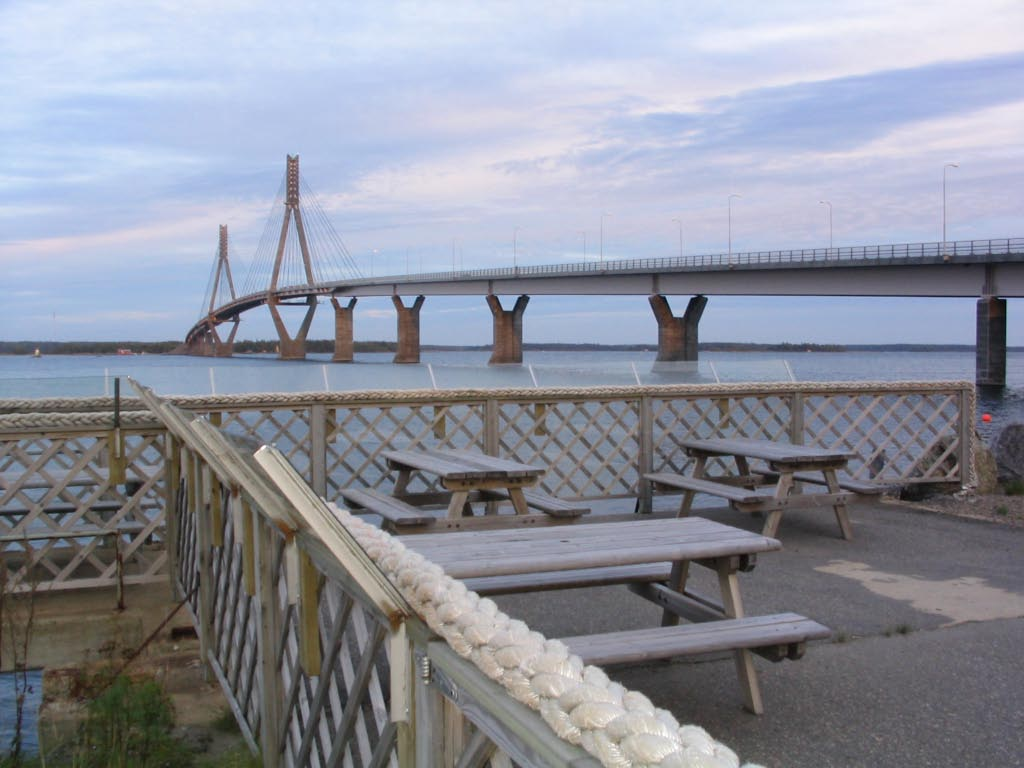 The Replot Bridge in Korsholm, Finland. A view from Replot to the mainland.